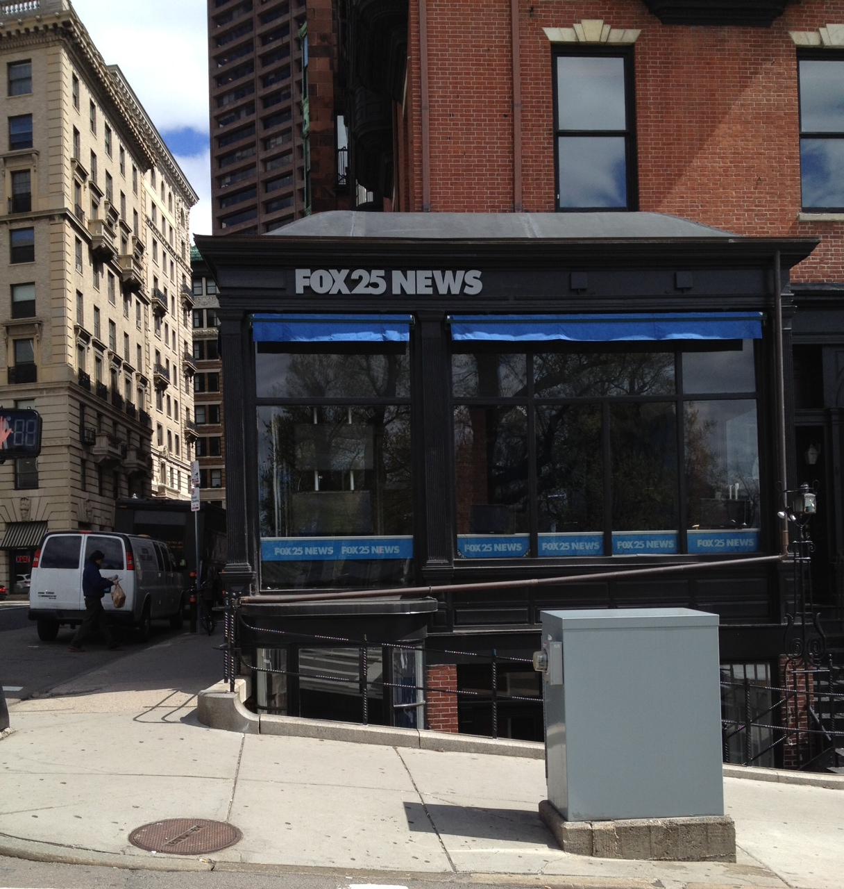 The Fox 25 News studios in the Beacon Hill neighborhood near the Massachusetts State House and the Boston Common.